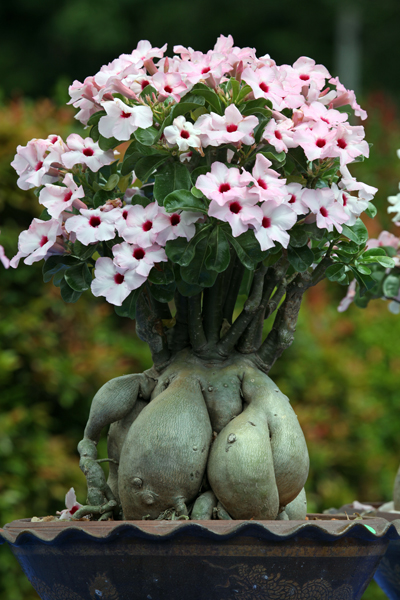 Adenium at the Penang Flower Festival in Malaysia in 2009